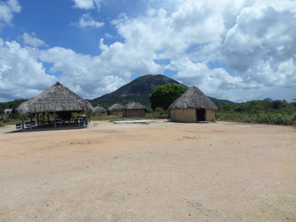 Indigenous Village Wapum